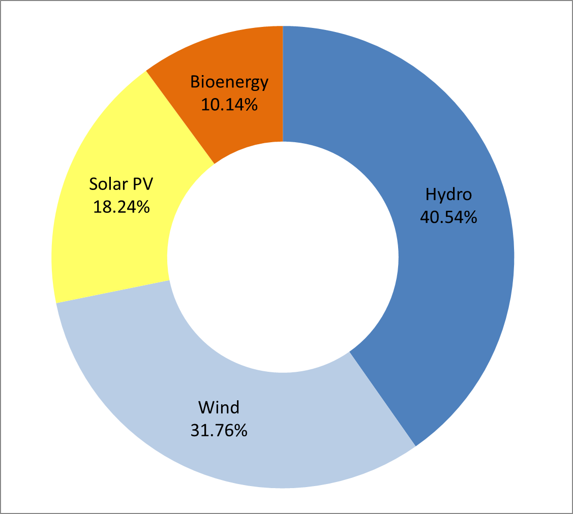 Donut graph of Renewable Electricity Generation Australia 2015-16